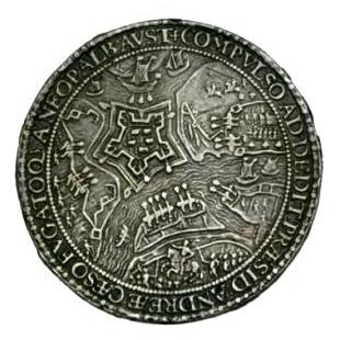 Coin because the battle of Nieuwpoort 1600. View: Fort St. Andries